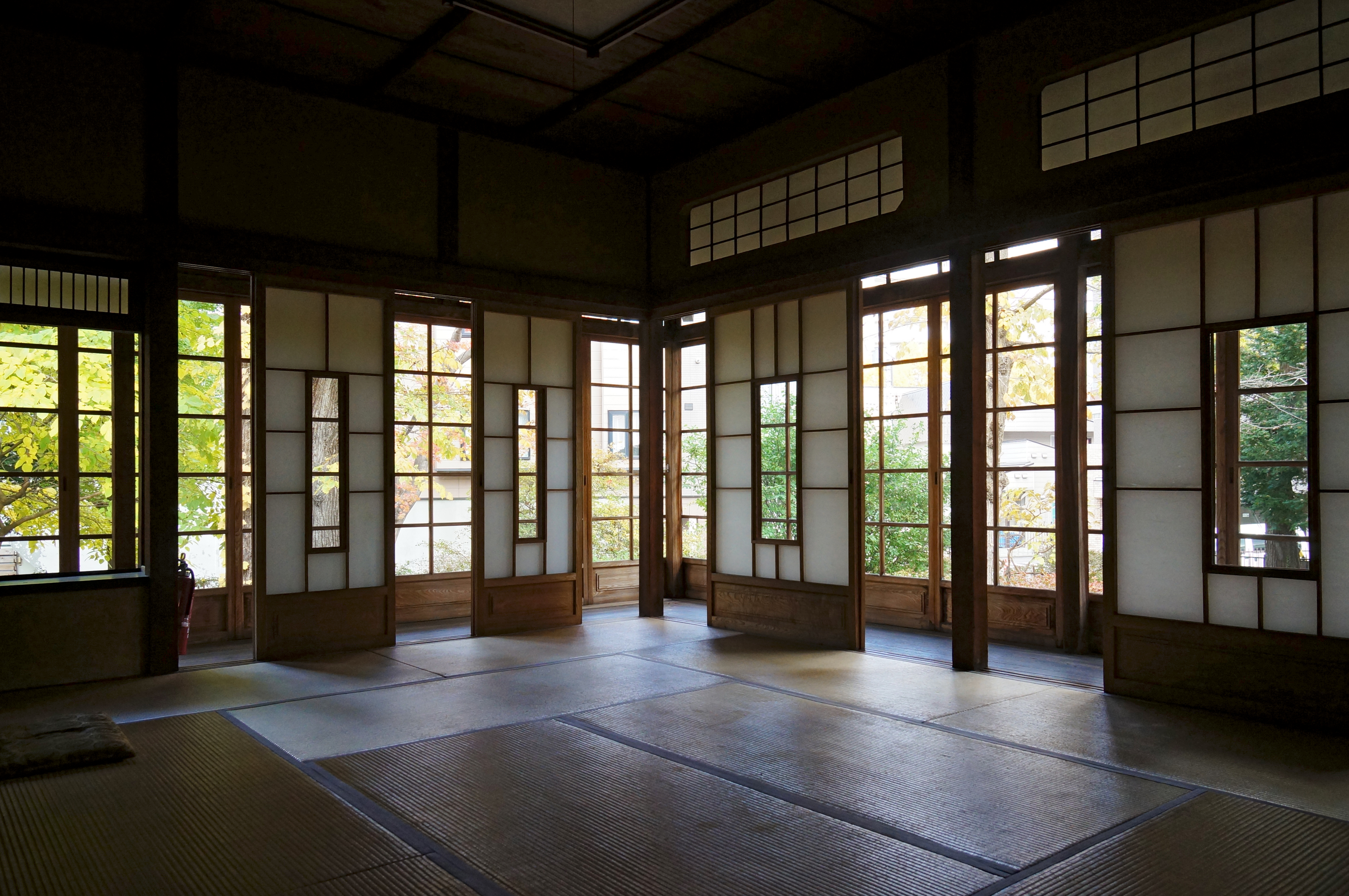 At Seikatei in Sapporo, Hokkaido prefecture, Japan.